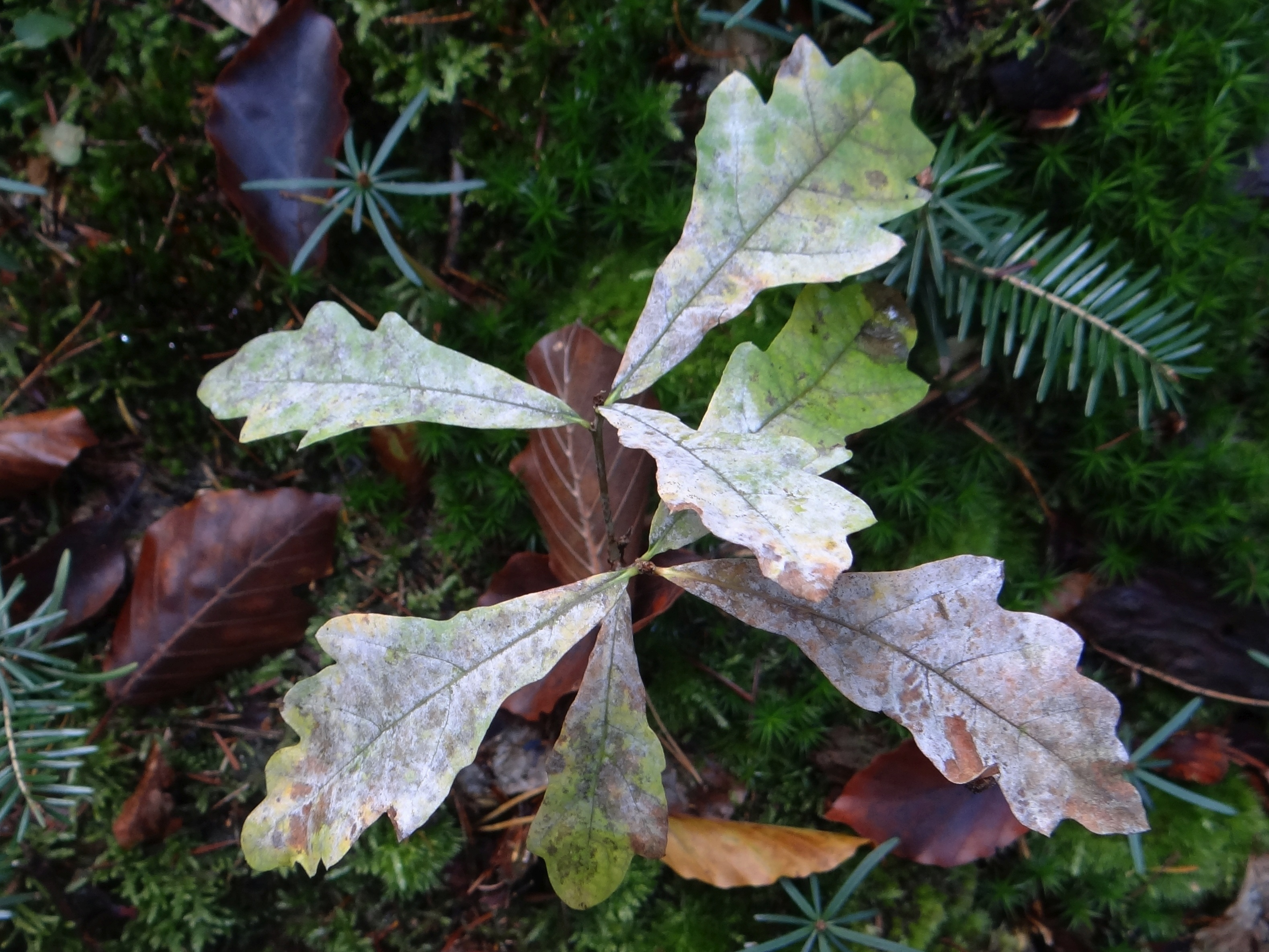 Erysiphe alphitoides on Quercus robur (location: Poland)